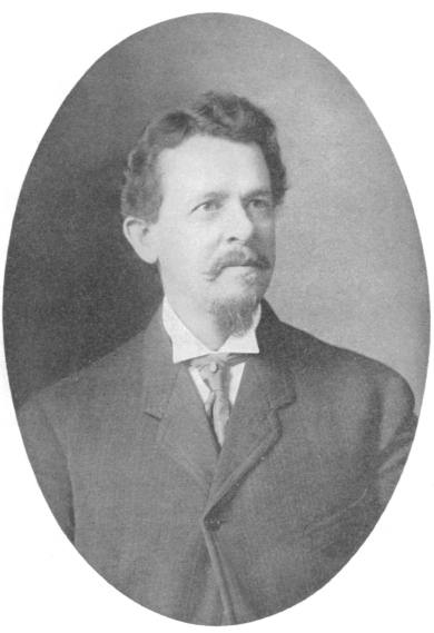 Herbert William Conn, Bacteriologist and professor of Biology Wesleyan University